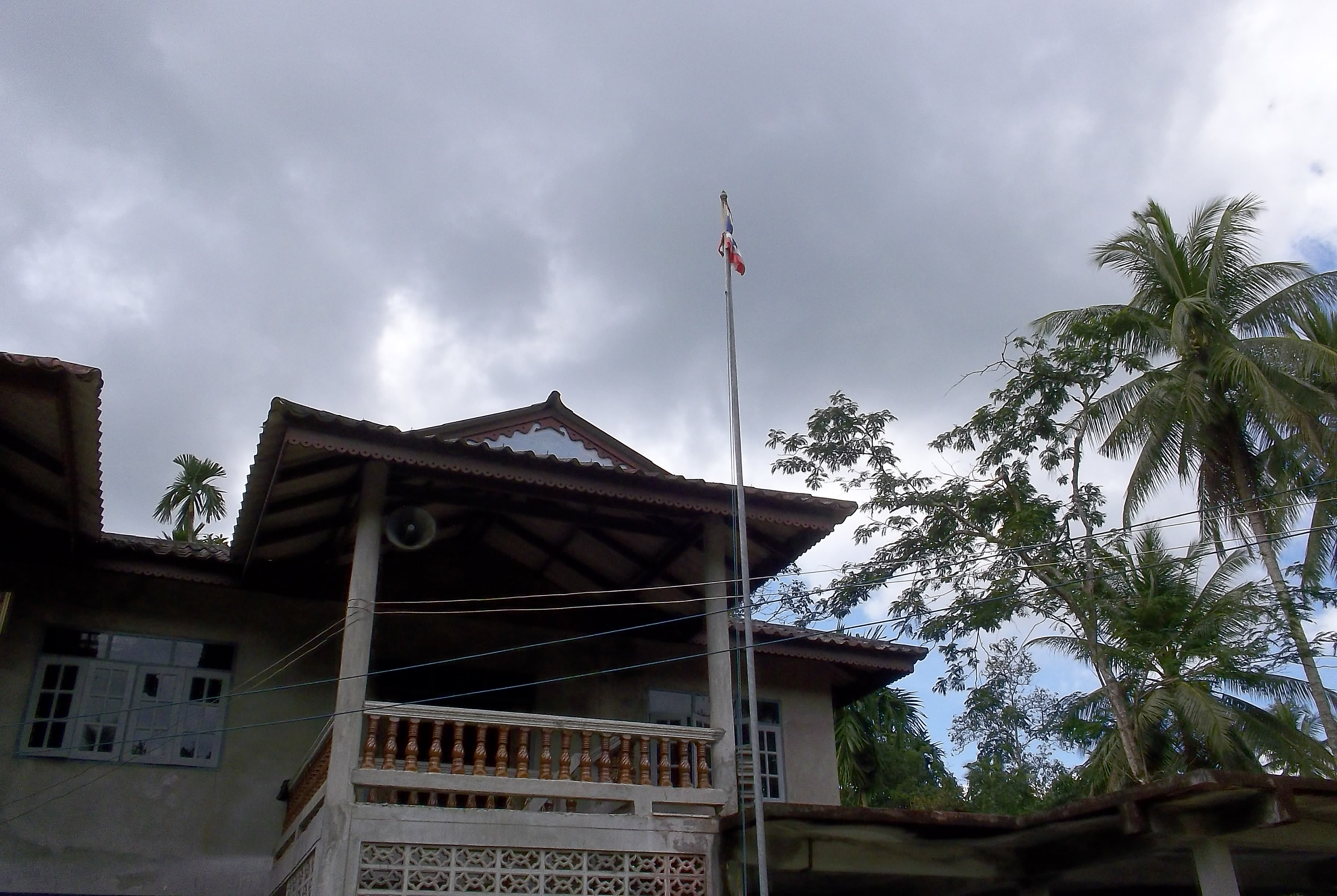 Pondok School in Ra-ngae District, Narathiwat Province in January 16, 2011